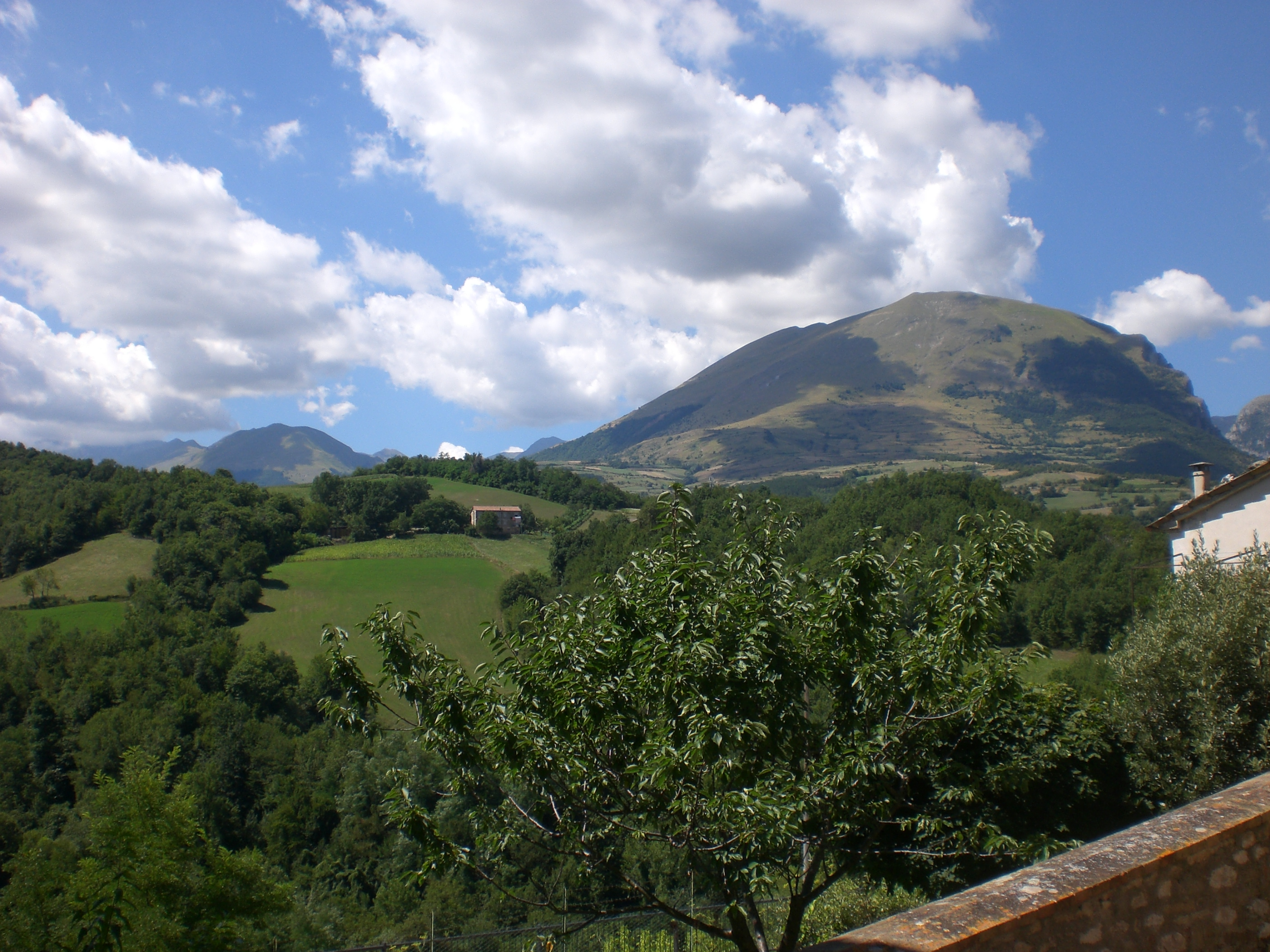 Sibilla Mountain viuw from Montefortino